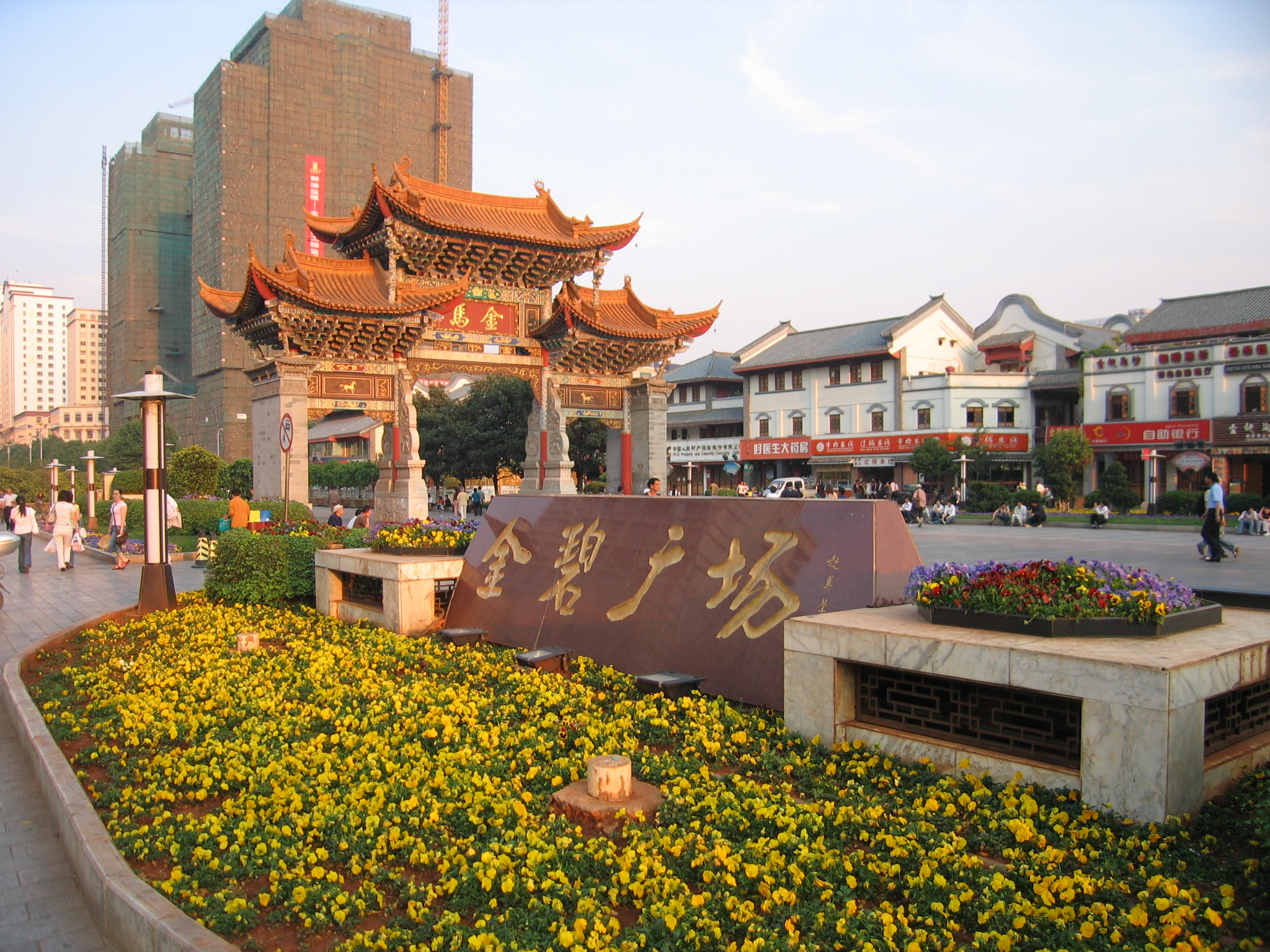 Jinbi Square in the center of Kunming, capital of Yunnan Province.